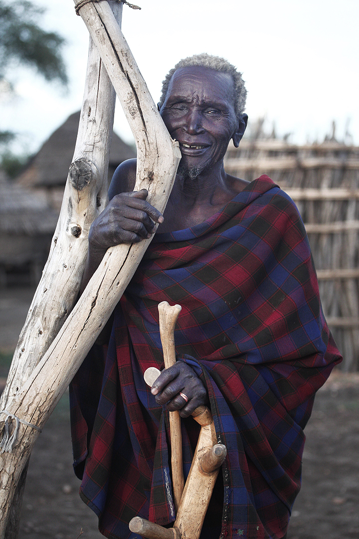 Toposa Elder in South Sudan